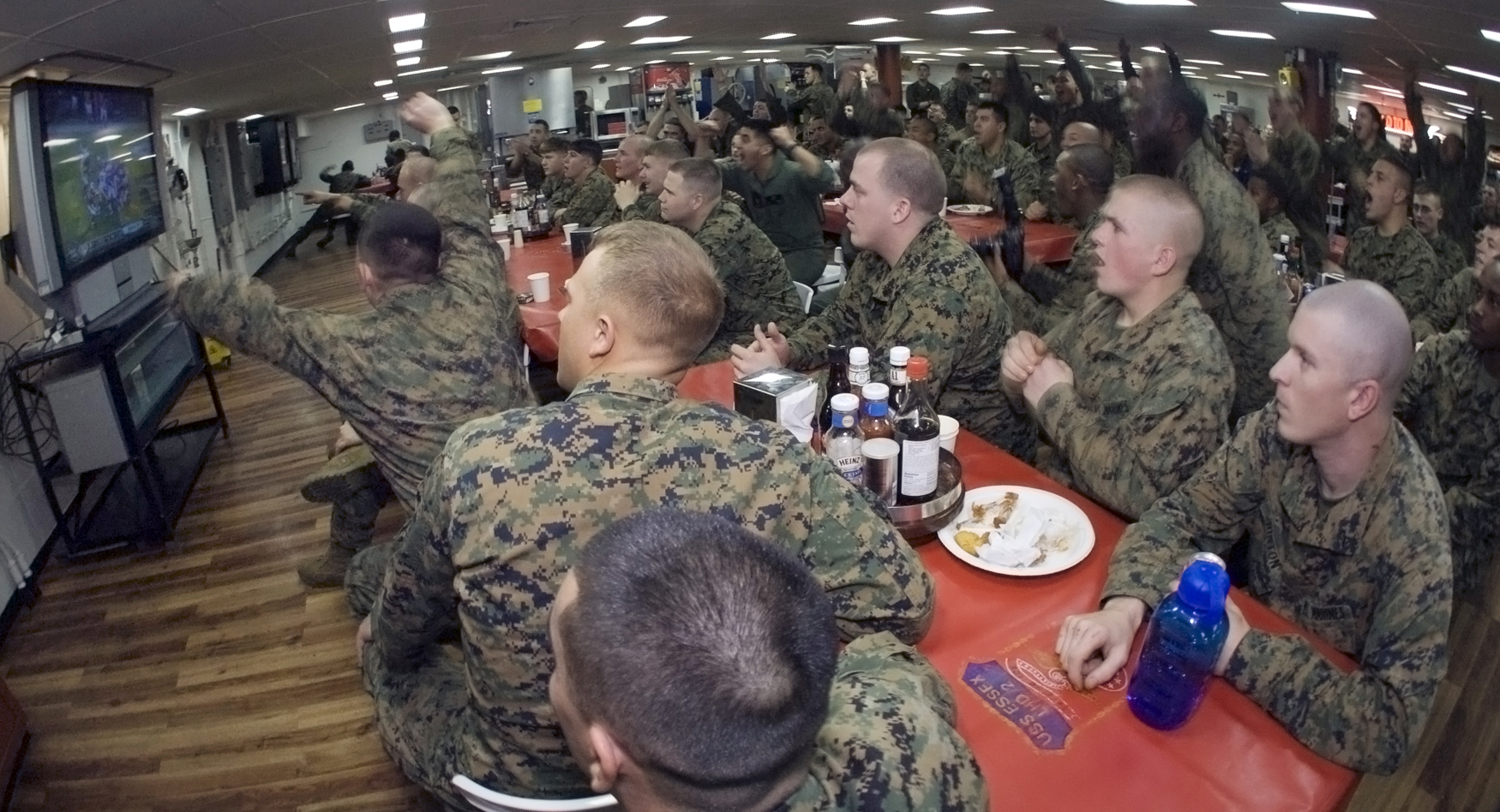 SOUTH CHINA SEA (Feb.2, 2009) Sailors and Marines aboard the amphibious assault ship USS Essex (LHD 2) react as the Pittsburgh Steelers score against the Arizona Cardinals late in the fourth quarter of Superbowl XLIII. (U.S. Navy photo by Mass Communication Specialist 2nd Class Gabriel S. Weber/Released)